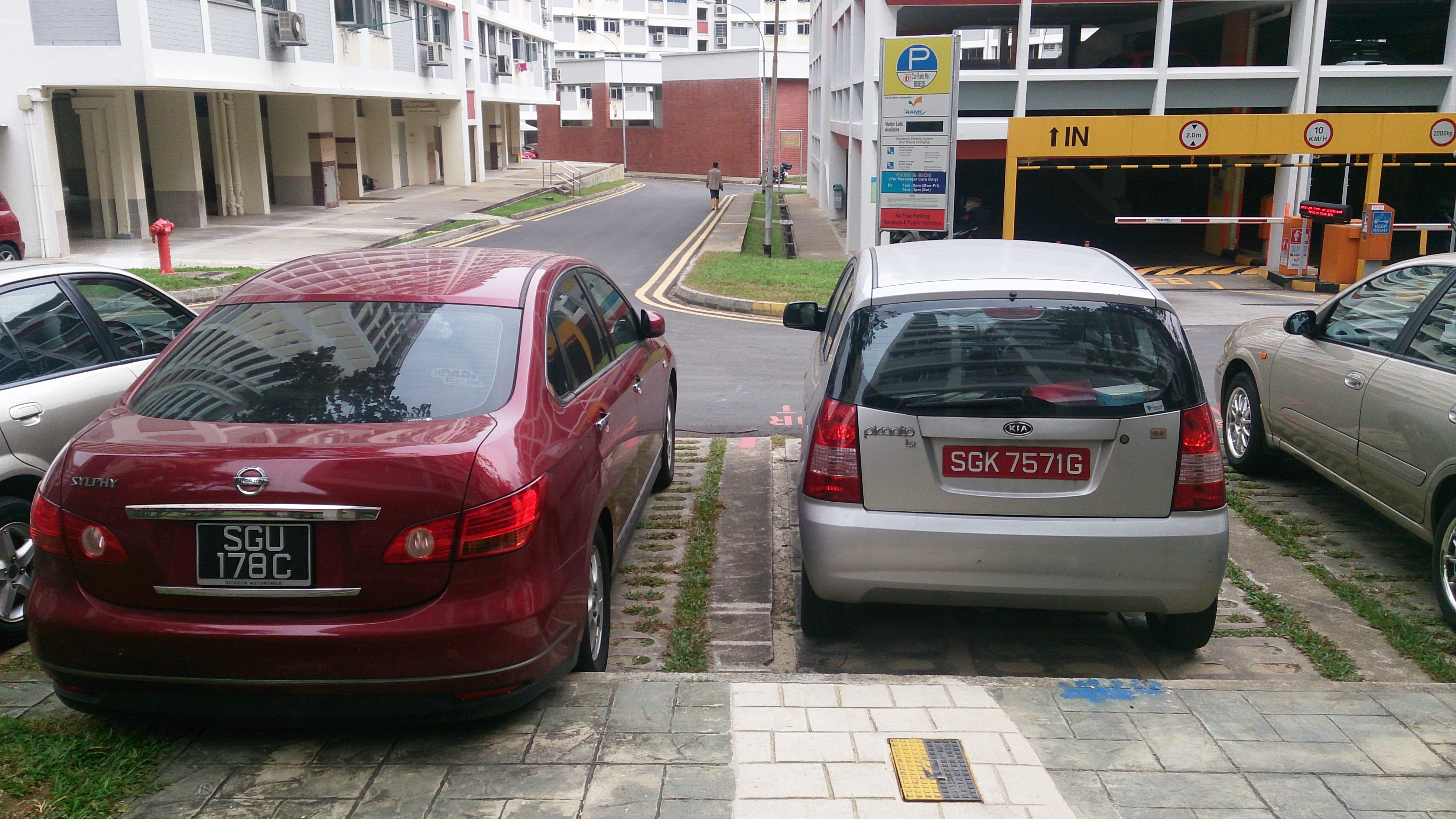 A red Nissan Sylphy G11 with an ordinary white-on-black vehicle registration plate, and a silver Kia Picanto with a white-on-red off-peak registration plate in a car park in Singapore.